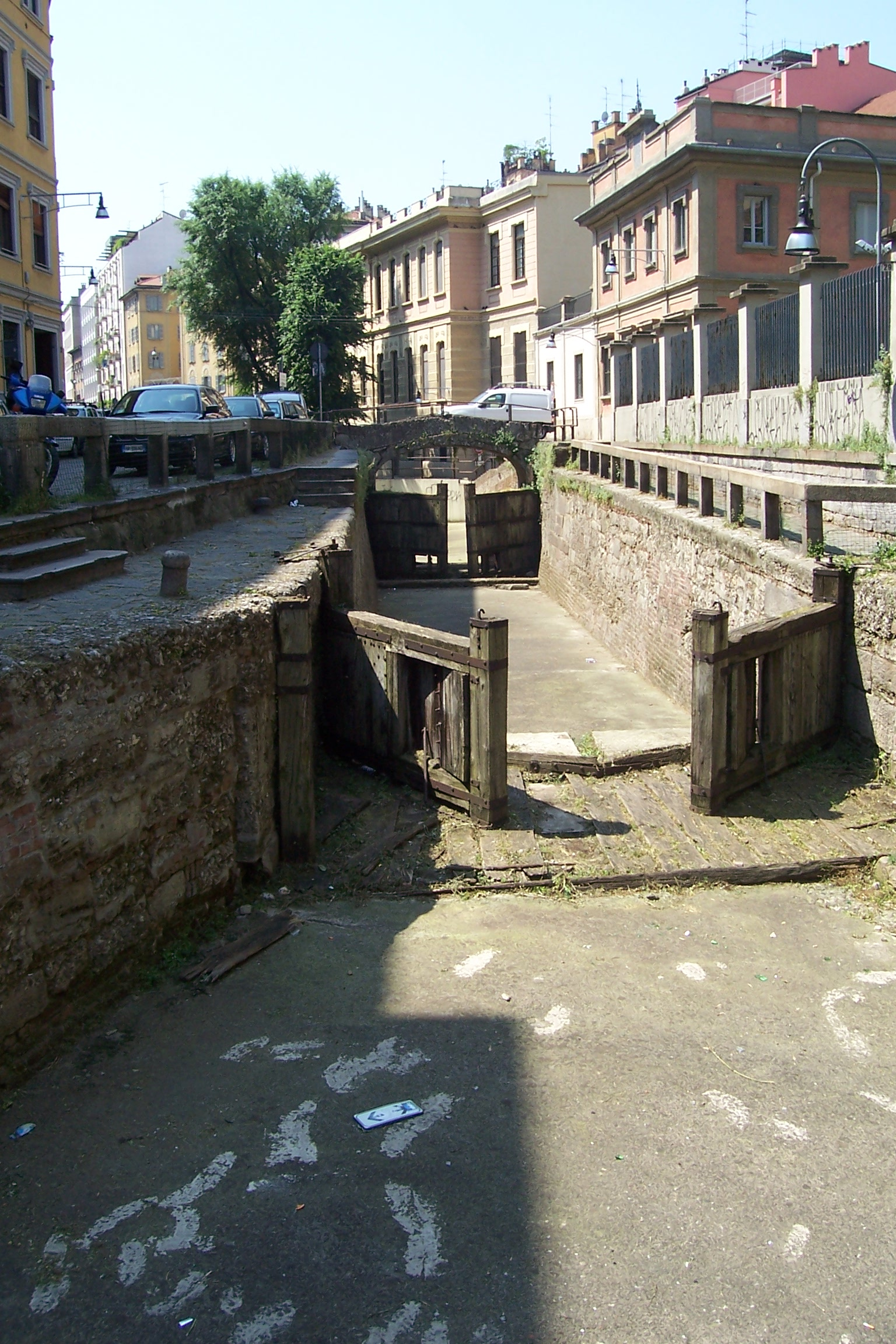 Martesana canal, 2010, ruins of Conca dell'Incoronata, Leonardo work.